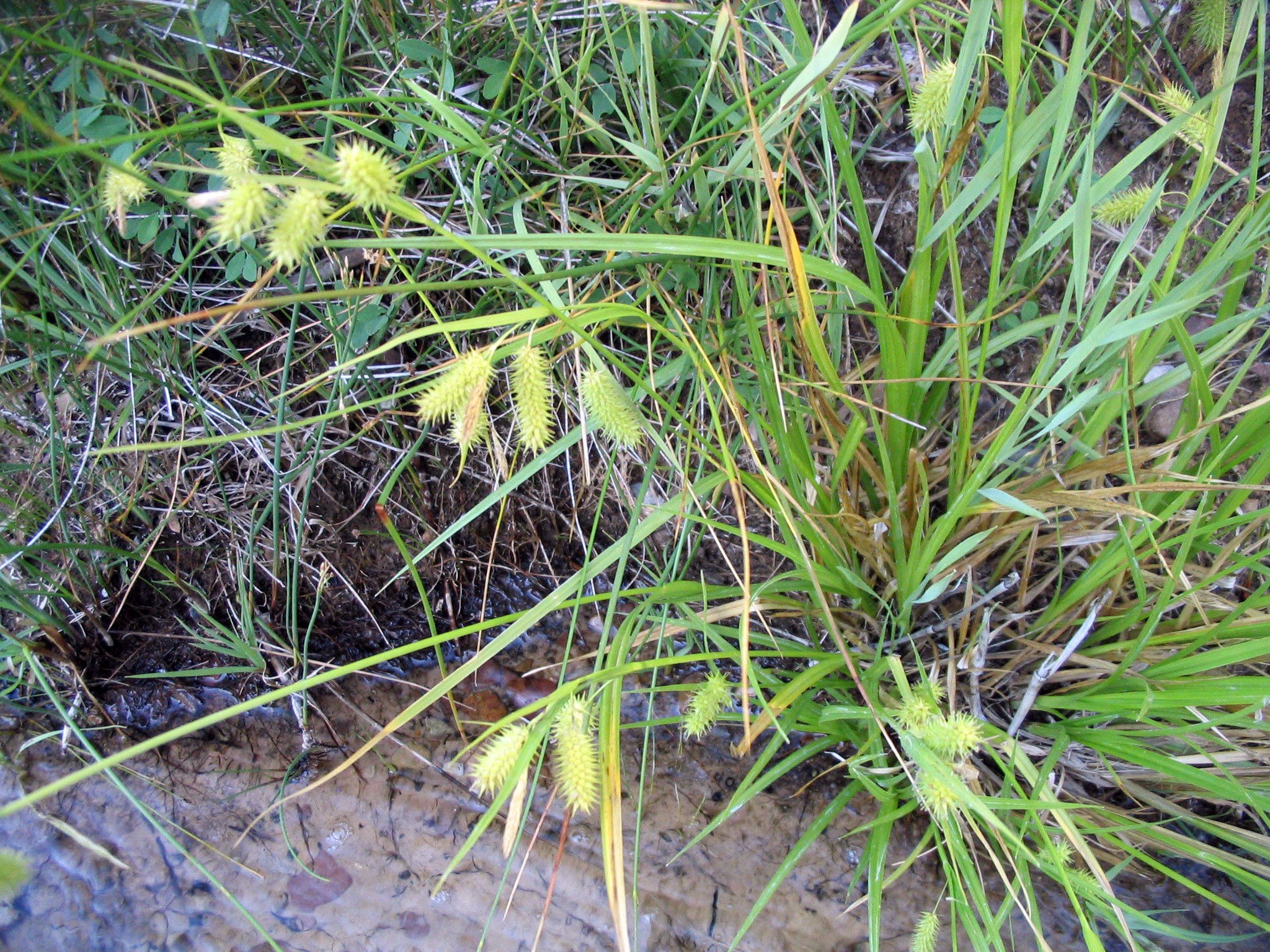 Carex hystericina Muhl. ex Willd. - bottlebrush sedge